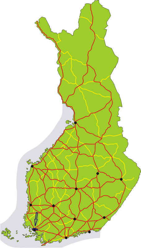 Map of the main road 40 in Finland, shown in dark blue. The other 1st class main roads (numbers 1–29) are red, 2nd class main roads (numbers 40–98) yellow. Black dots show the 12 biggest urban areas.